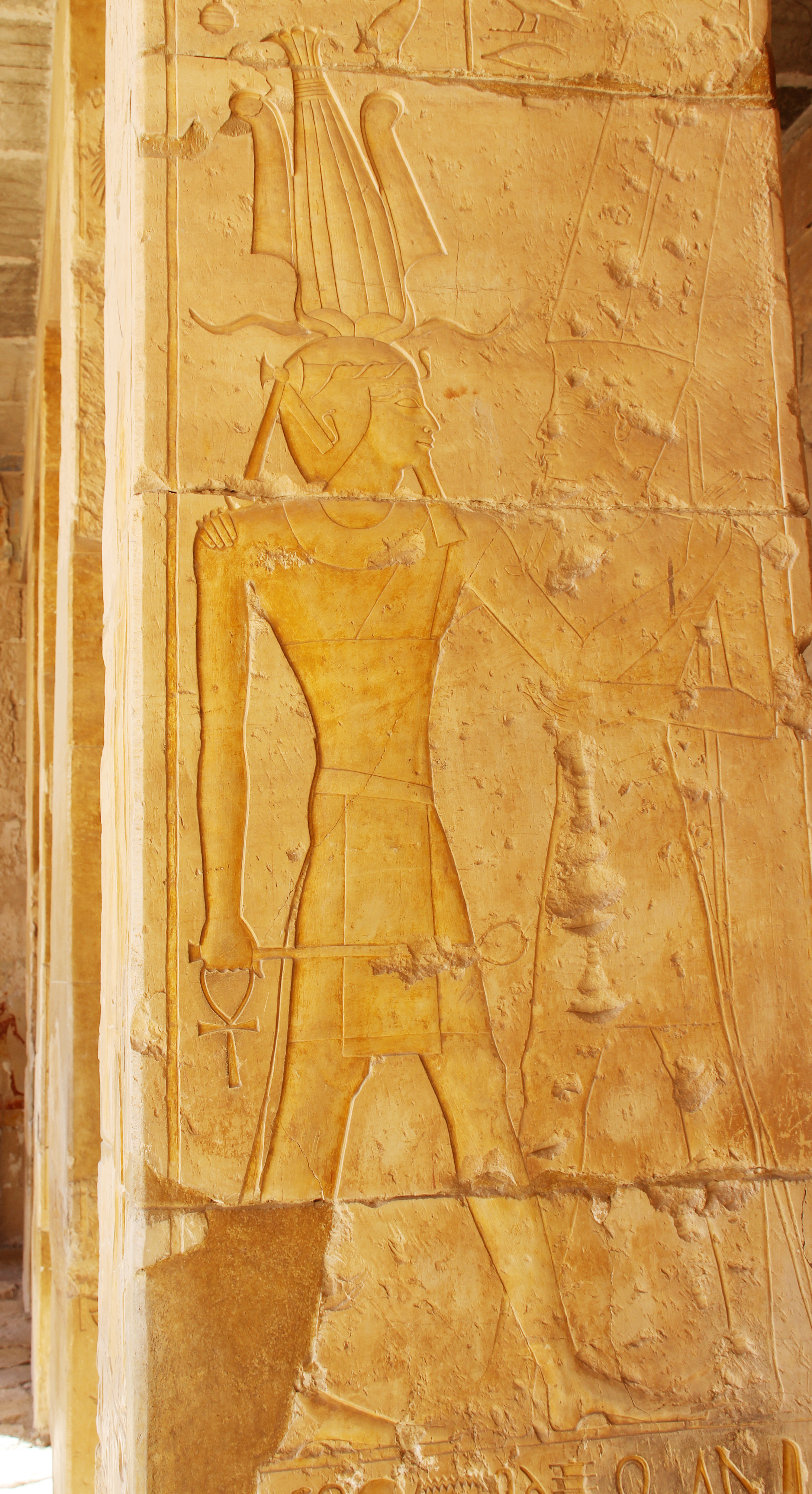 Mortuary Temple of Hatshepsut, Column Detail, Egypt